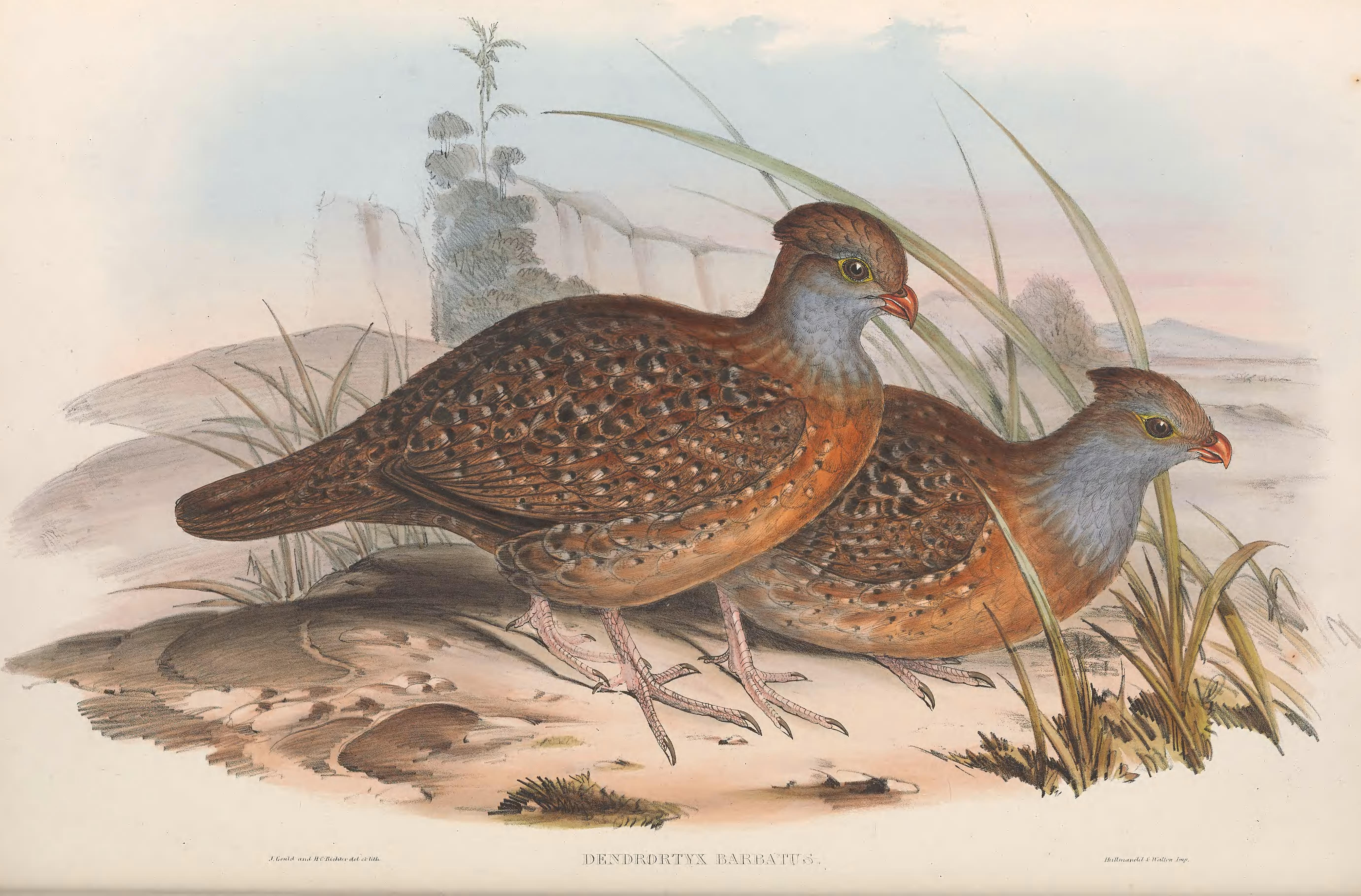 Dendrortyx barbatus - A monograph of the Odontophorinæ, or, Partridges of America